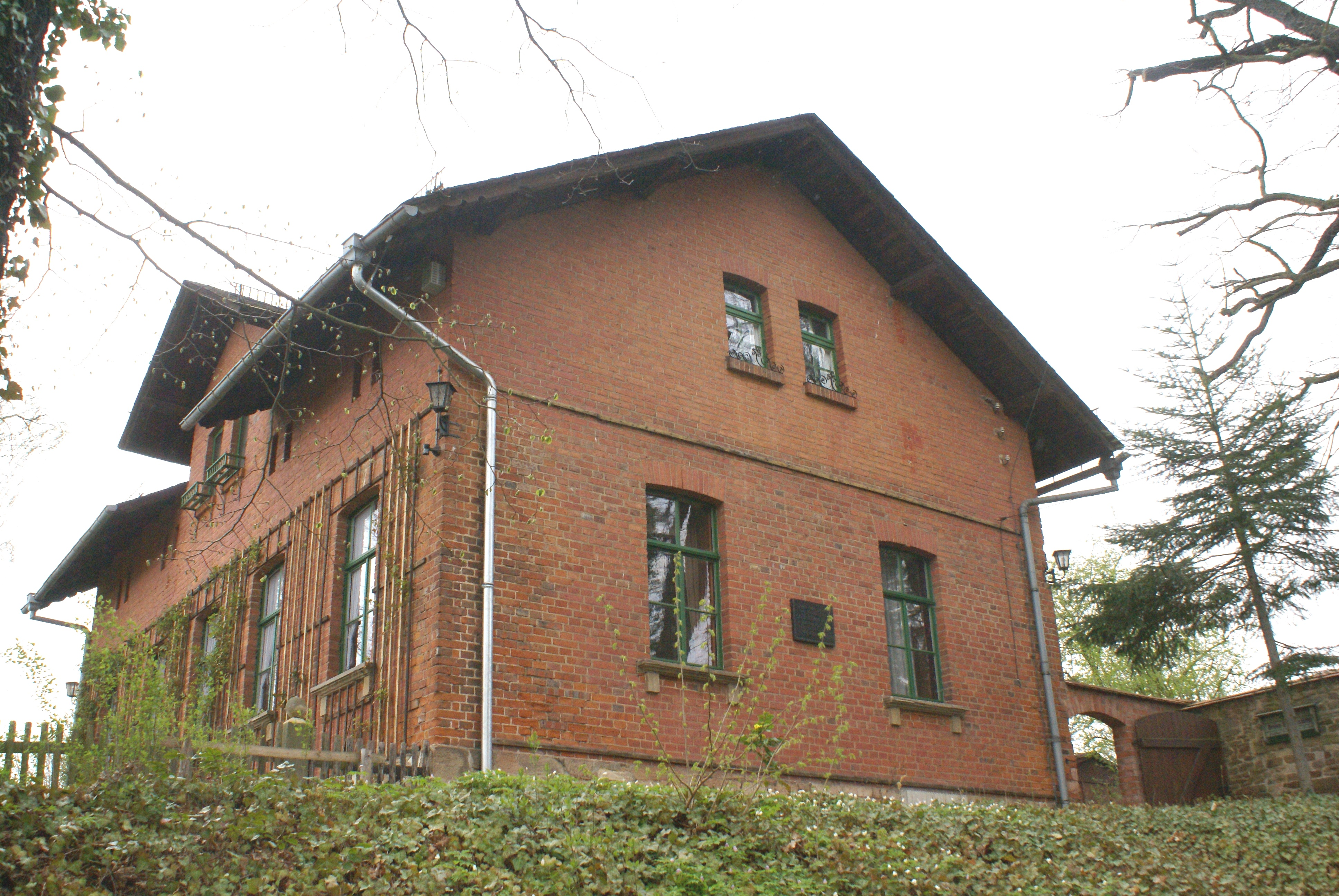 House of Brehm family at Renthendorf, Germany, now Museum